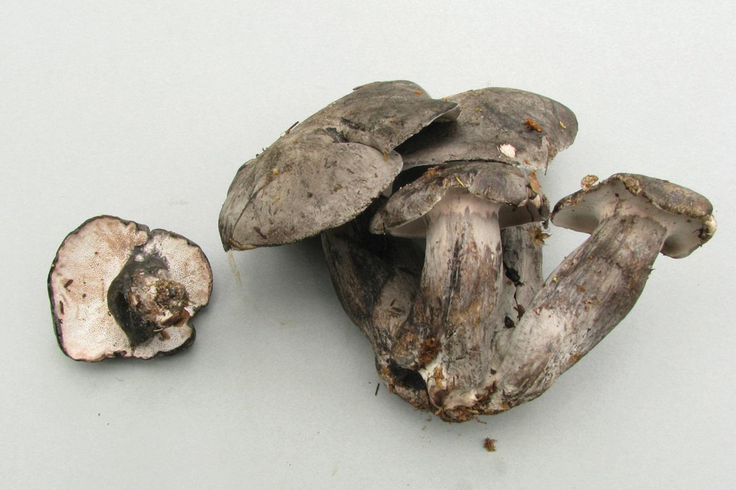 Fruitbodies of Boletopsis nothofagi.